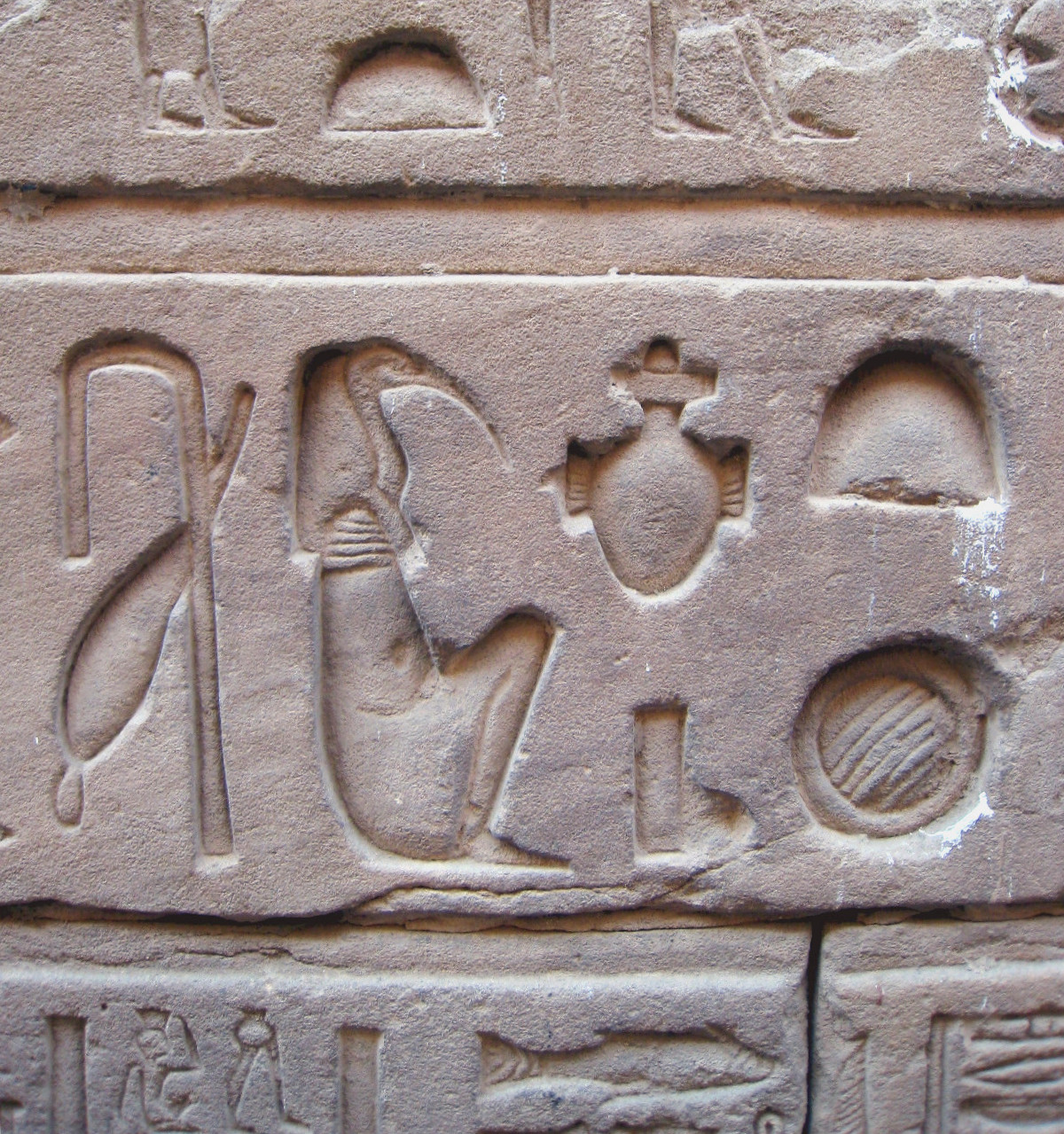 Ancient Egyptian reliefs in Edfu Temple IMG_7153